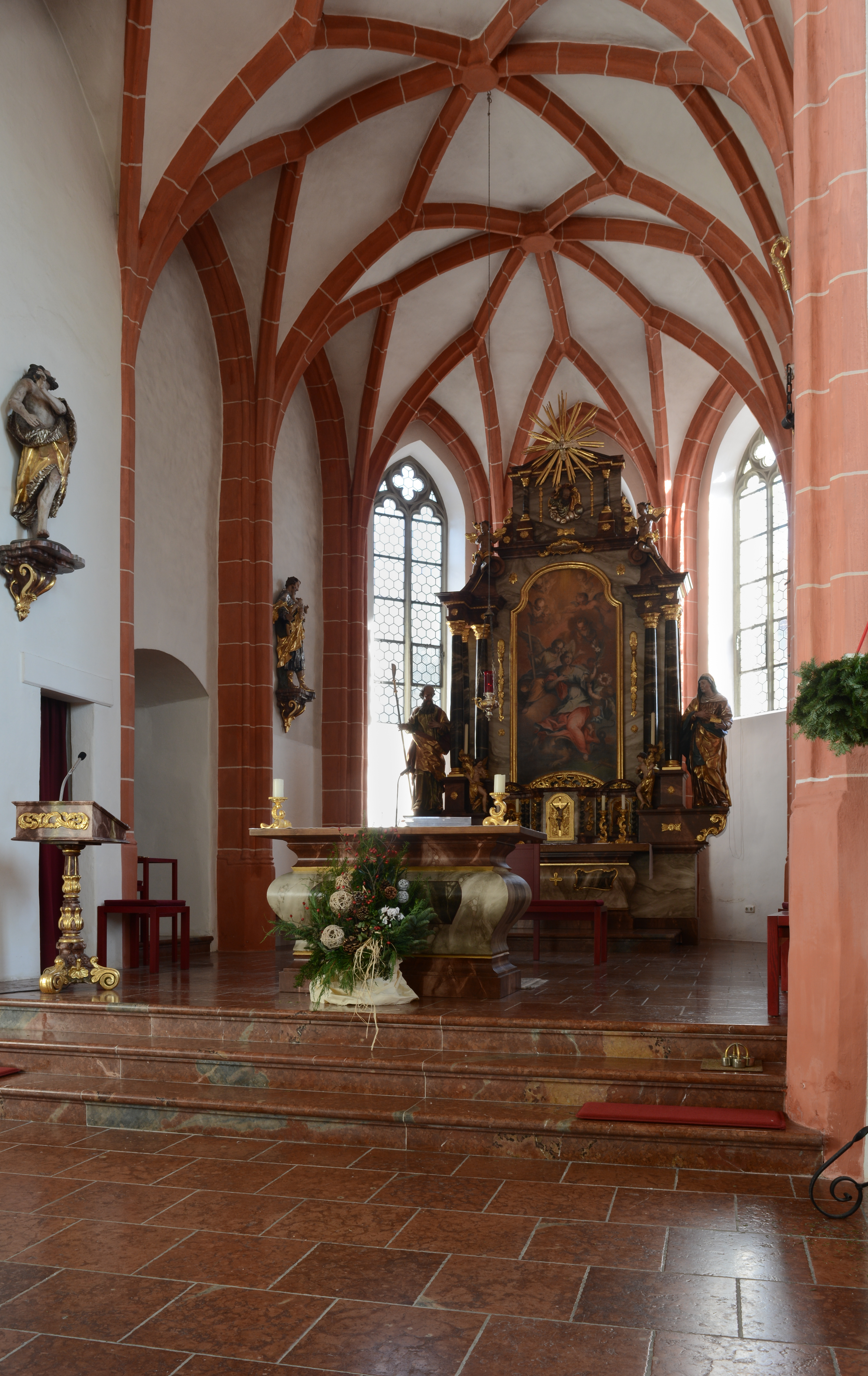 The parish church of Prambachkirchen (Upper Austria) was erected at the begin of the 16th century. Presbytery and nave are provided with remarkable rib vaults. The interior is of neo-baroque with modern elements.